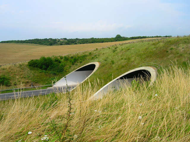 Southwick Hill Tunnel Western portals of the A27 tunnel that goes under Southwick and was opened in 1996.